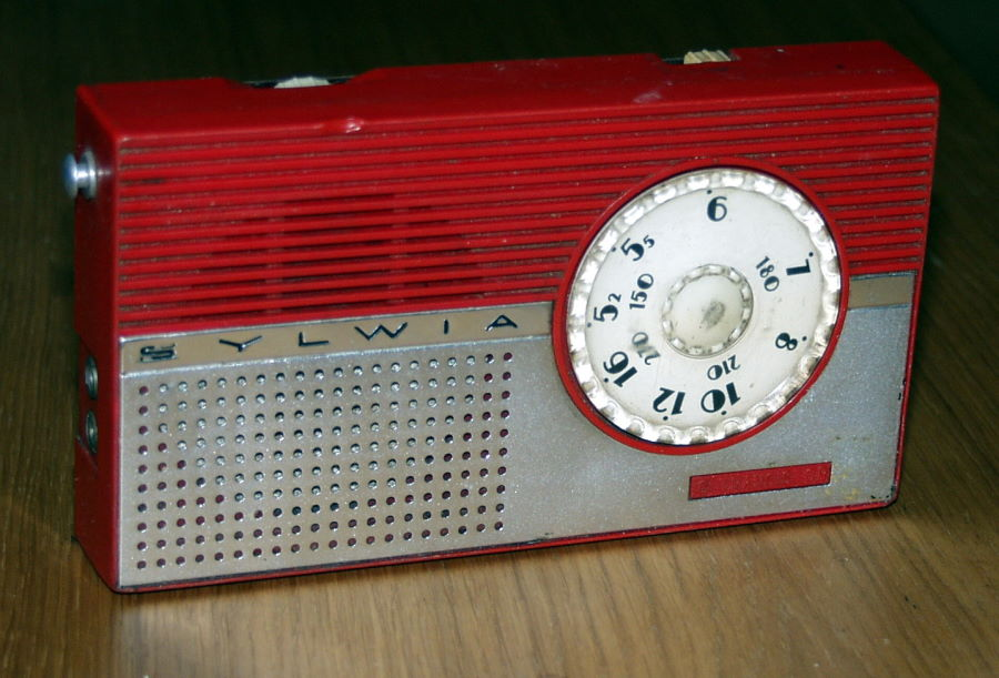 Radio "Sylwia", manufacturer: "ZRK" (Poland), 1966